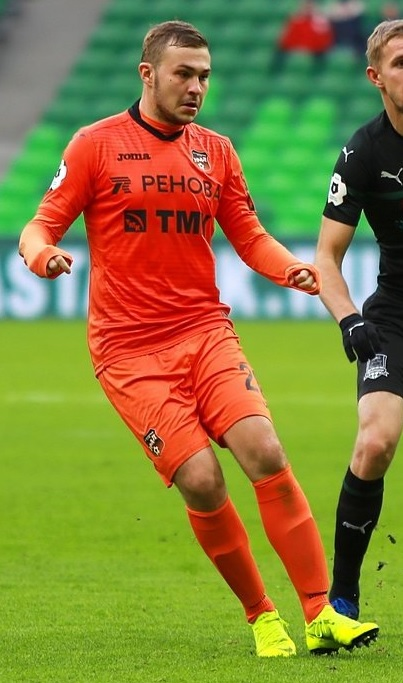 Andrei Panyukov with FC Ural Yekaterinburg in a game against FC Krasnodar.